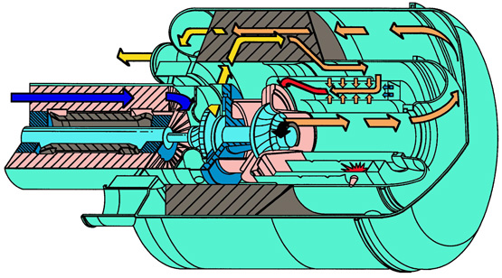 Cross-section cutaway illustration of generator and engine